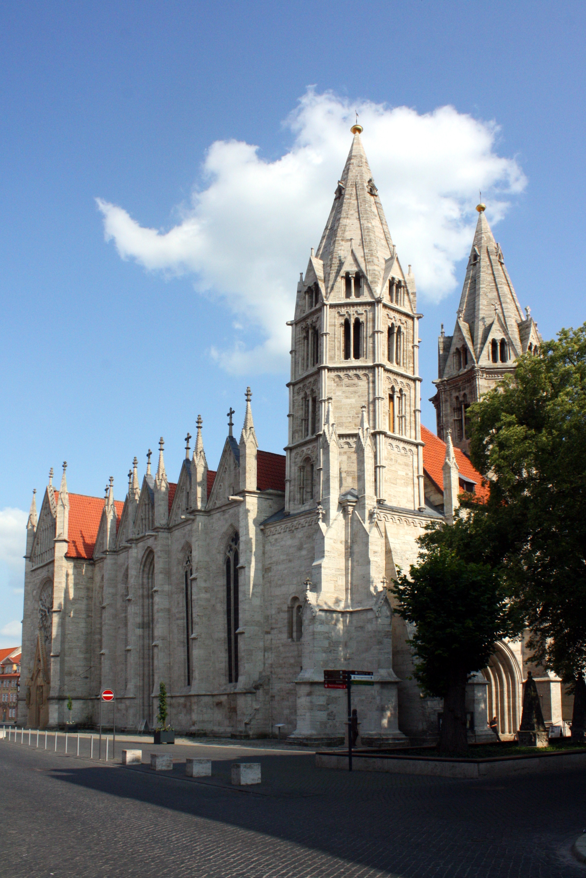 Saint Blaise church in Mühlhausen/Thuringia